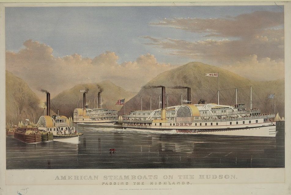 Steamboats passing on the Hudson River, 1874 lithograph published by Currier and Ives. (Shows Drew among other vessels)